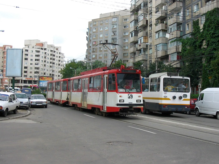 A Timiș-type tram set and a trolleybus in Cluj-Napoca, Romania, in 2004